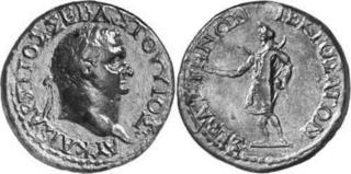 Coin minted in Ancyra of Galatia, from the period of Roman emperor Titus (reigned 79-81). Obverse: "AUT KAISARTITOS SEBASTOS UIOS". reverse: "ΣΕΒΑΣΤΗΝΩΝ ΤΕΚΤΟΣΑΓΩΝ"